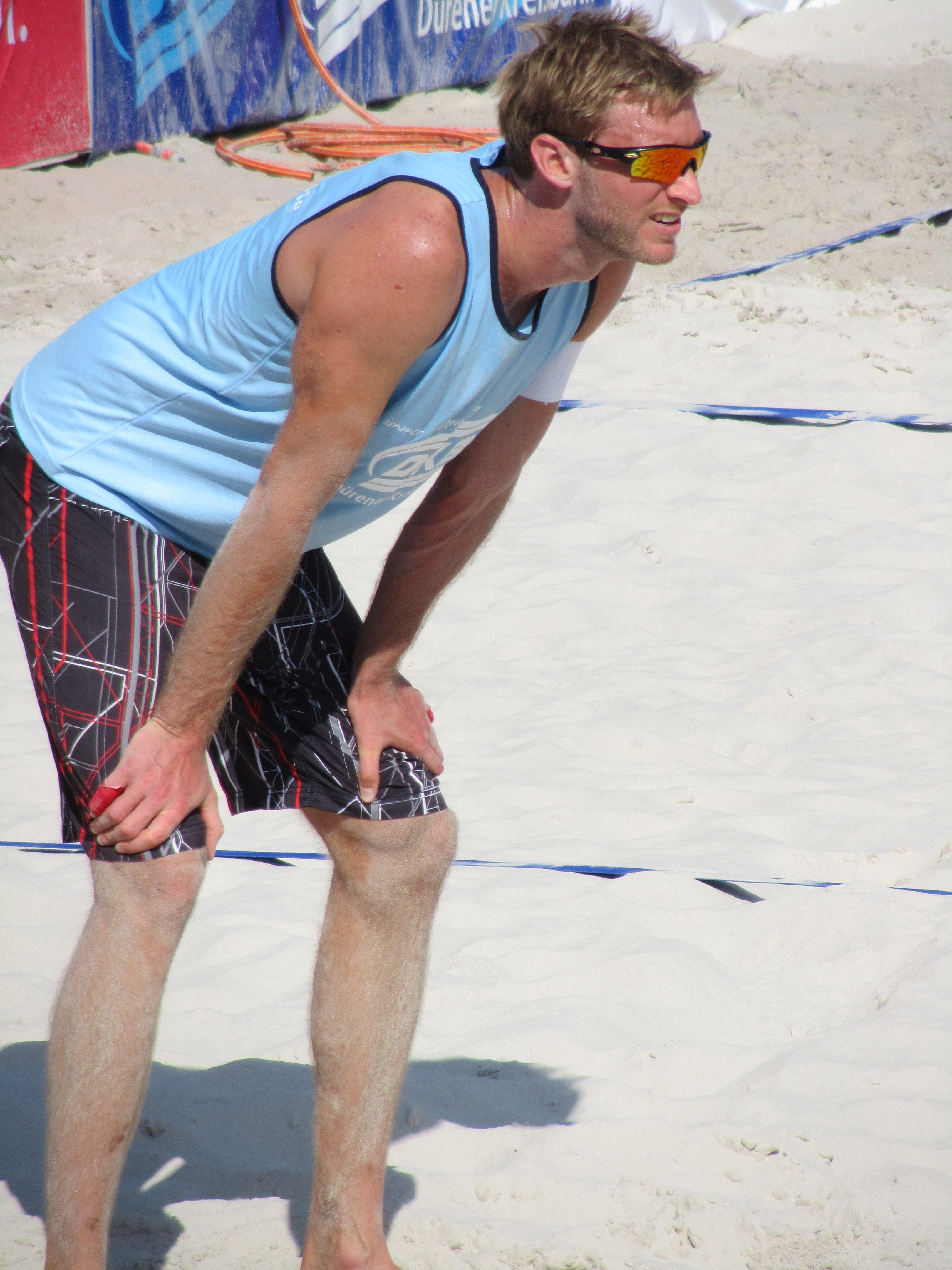 the German beach volleyball player Sebastian Dollinger at the DKB Beach Cup 2011 in Düren, Germany